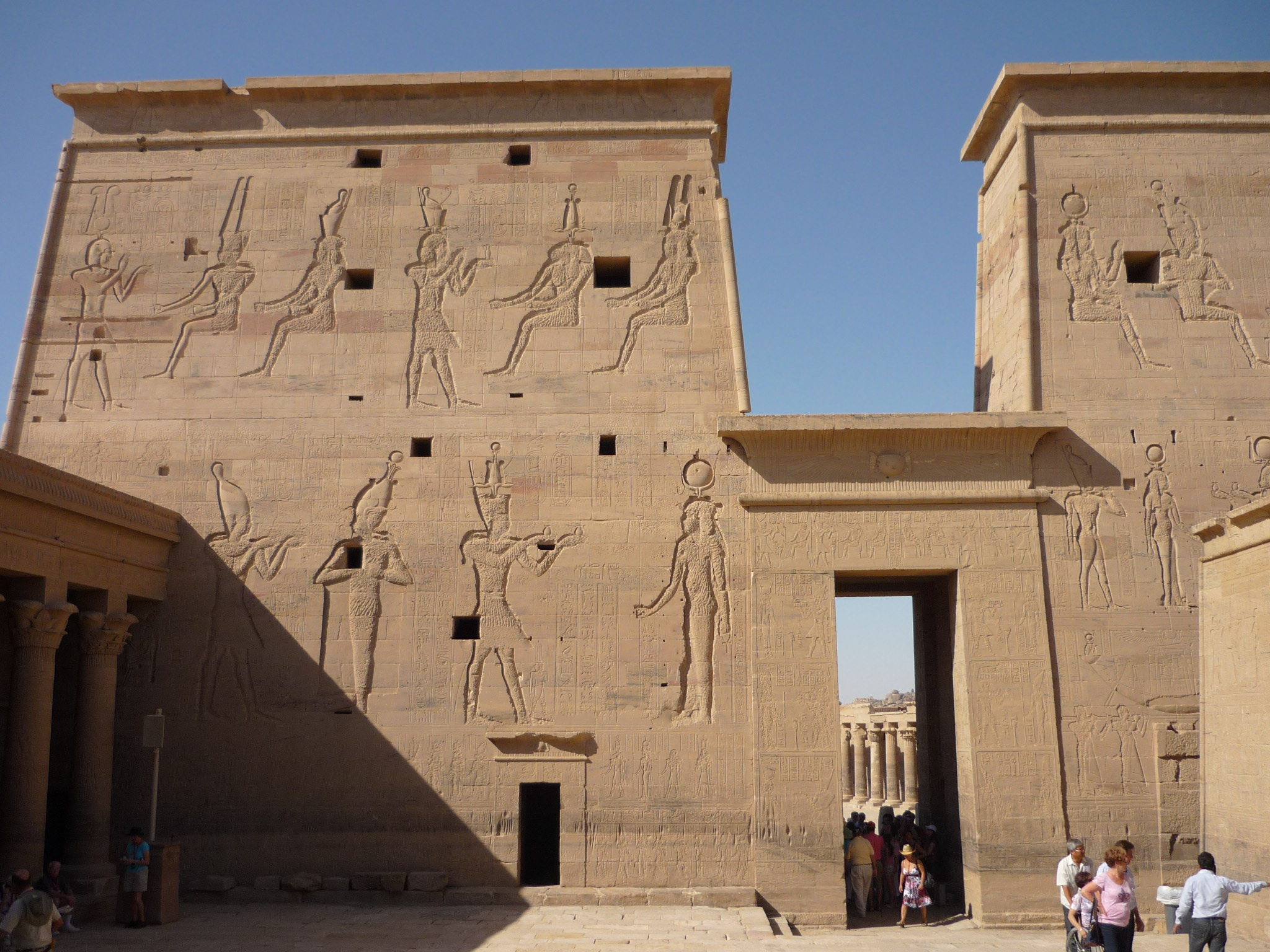 First pylon, Isis Temple, Philae Island, Egypt